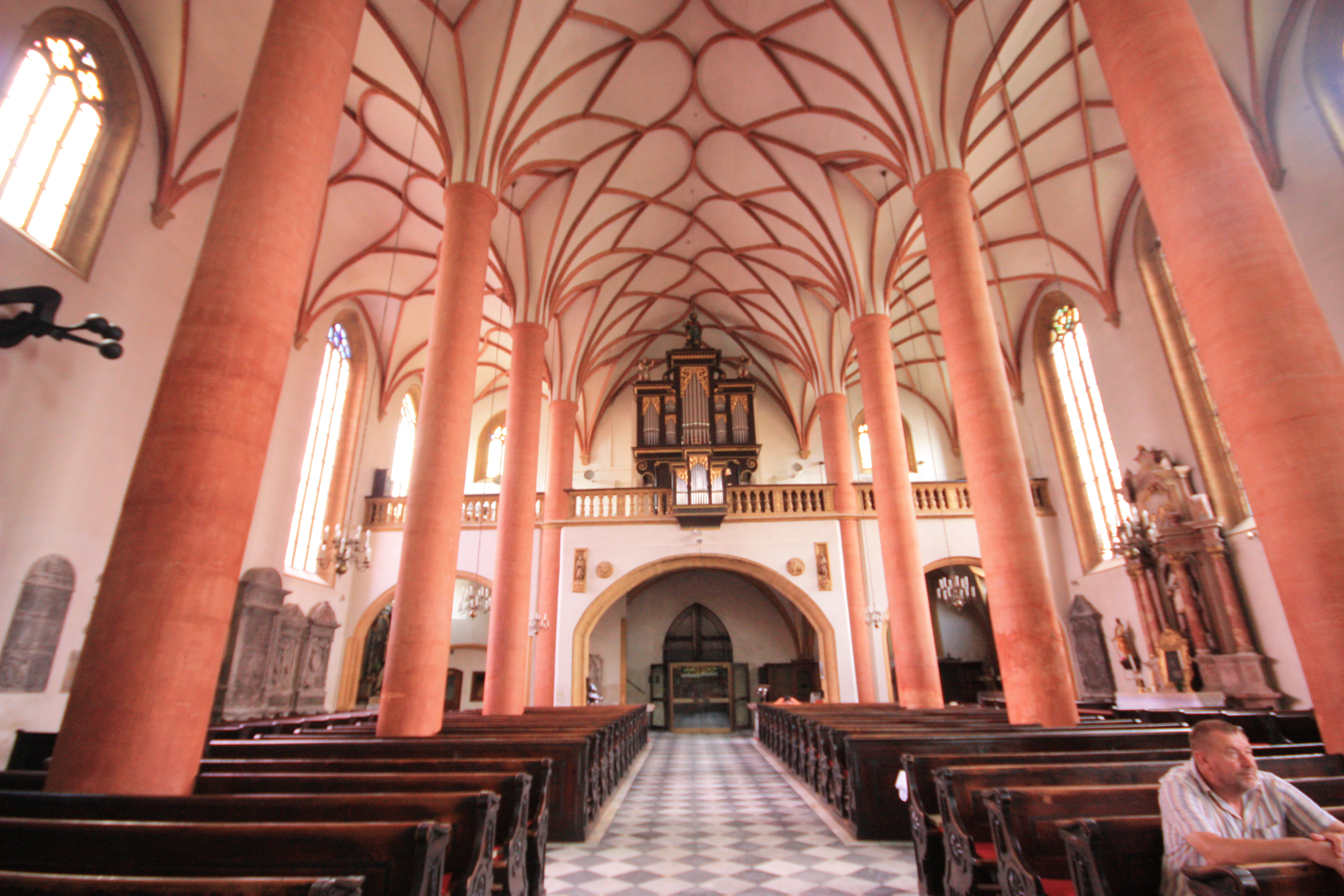 Parish church Saint Jakob: View to the Organ loft Street:Kirchenplatz Community:Villach